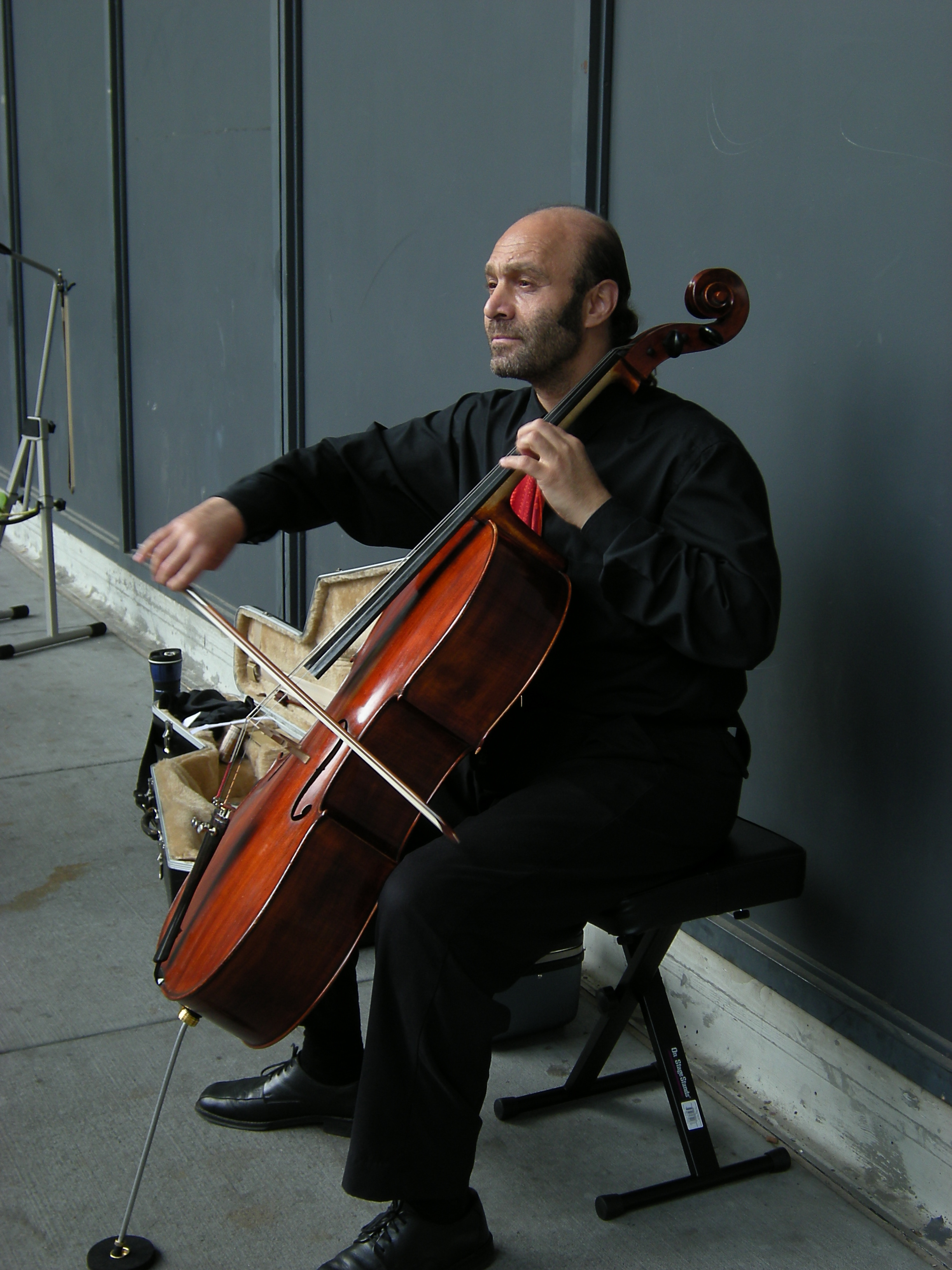 Classical cellist Ashraf Hakim, busking at Northwest Folklife Festival, Seattle Center.